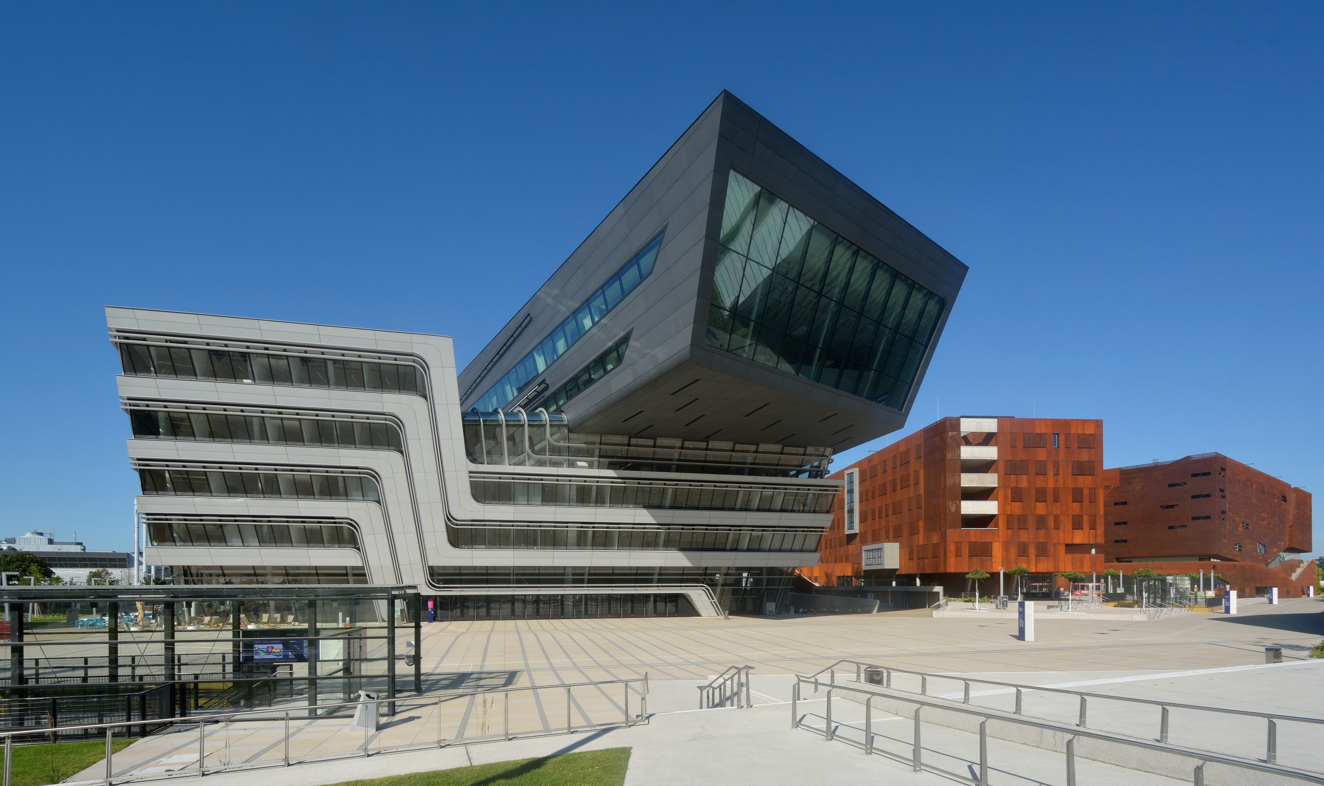 Campus of the Vienna University of Economics and Business, Library and Learning Center (left, architect: Zaha Hadid), Departement 1 and Teaching Center (right, architect: Laura Spinadel), Welthandelsplatz 1, 2nd district of Vienna.